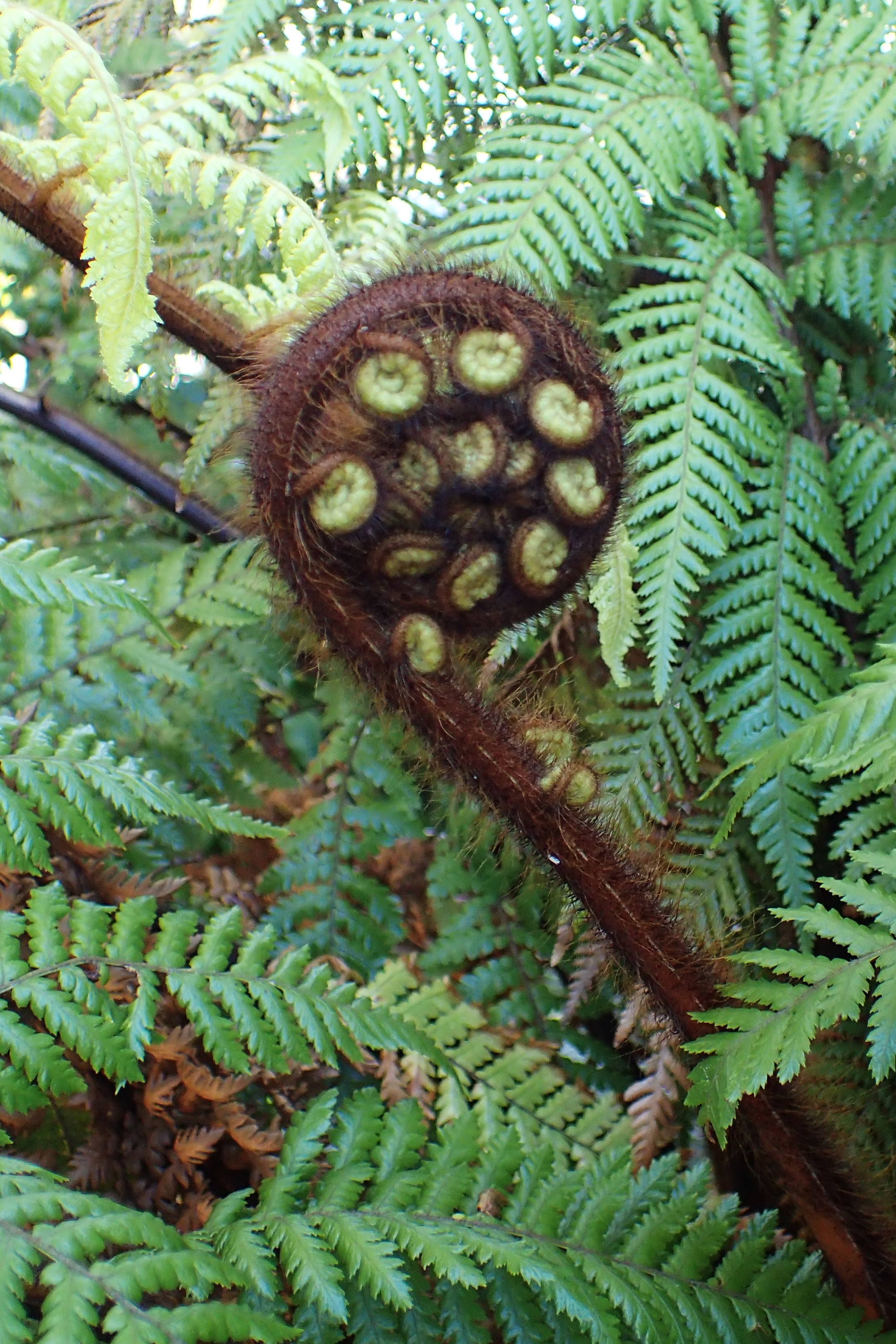 Dicksonia squarrosa in Dunedin Botanic Garden